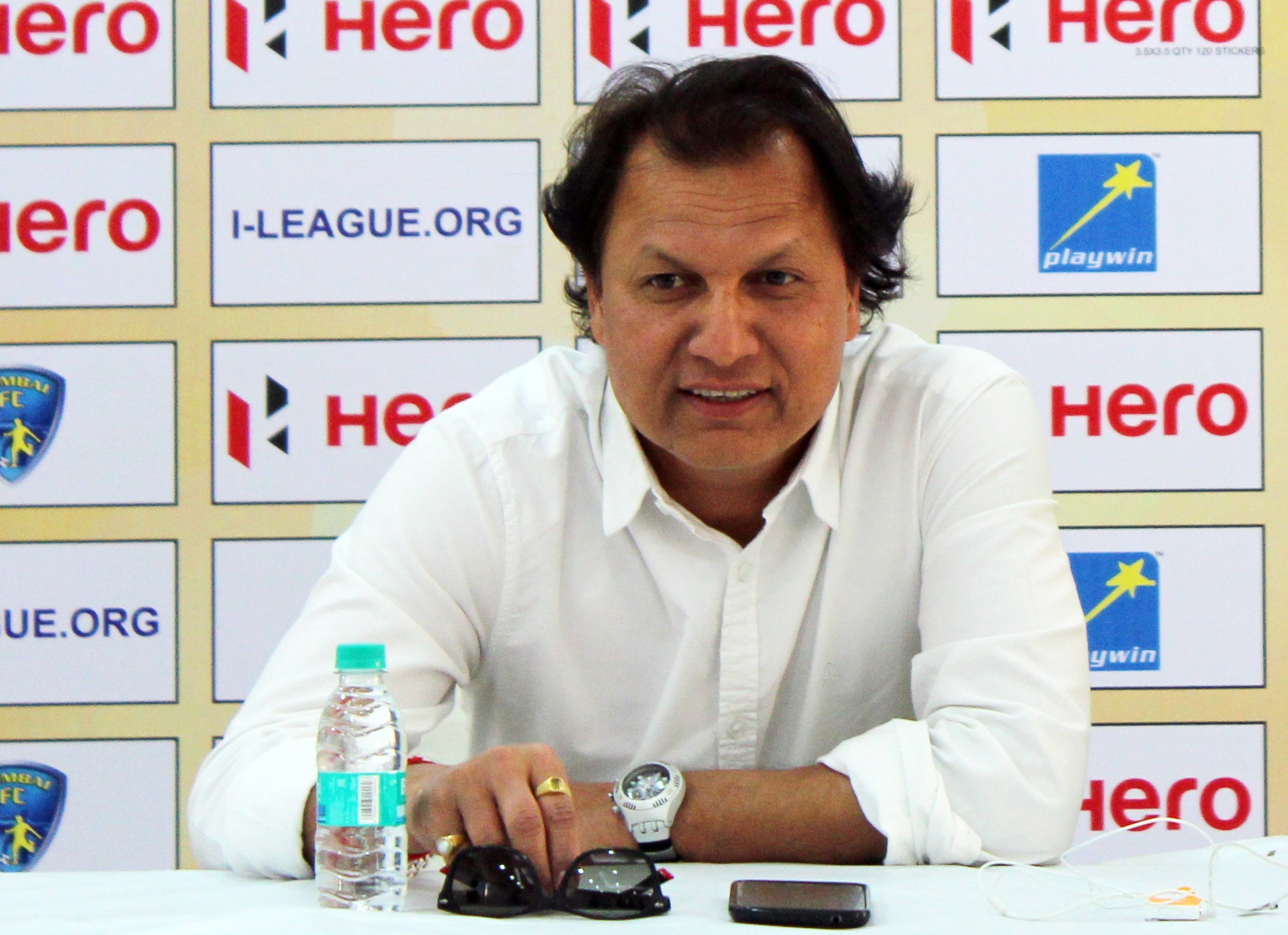 Santosh kashyap - footballcoach